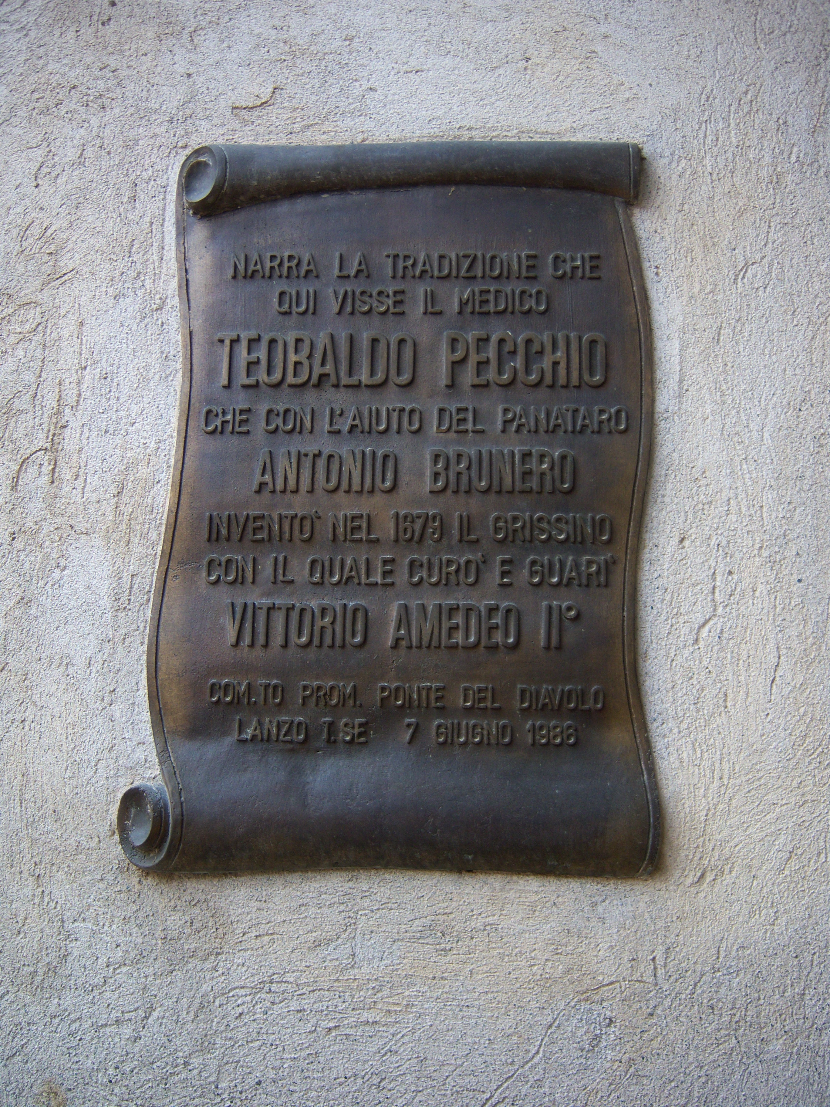 Commemorative plate for the invention of the grissino in Lanzo Torinese, Italy